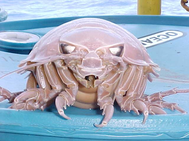 Front view of Bathynomus giganteus